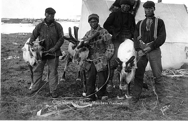 Caption on image: Cape Prince of Wales Reindeer Herders. NowellCape Prince of Wales is the westernmost point of Seward Peninsula, 55 miles northwest of Teller. It was named on May 9, 1778 by Captain Cook.(pg. 777) Notes from Donald Orth, Dictionary of Alaska Place Names: Geological Survey Professional Paper 567 (Washington: United States Government Printing Office, 1967) Subjects (LCTGM): Eskimos--Subsistence activities--Alaska--Prince of Wales, Cape; Reindeer; Tents--Alaska--Prince of Wales, Cape; Group portraits Subjects (LCSH): Reindeer herders--Alaska--Prince of Wales, Cape